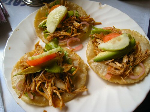 Centro Histórico, Mexico City.